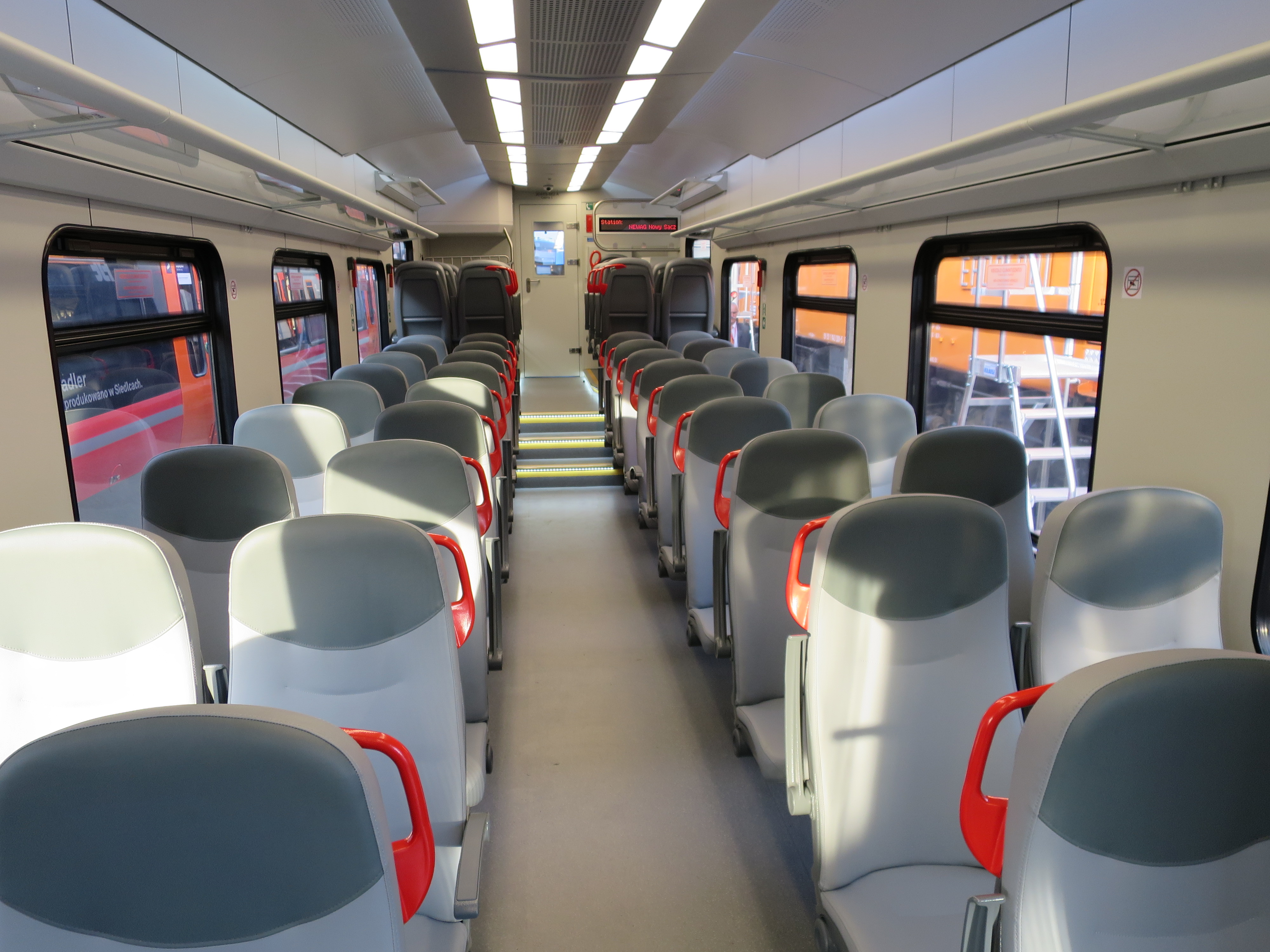 The making of this document was supported by Wikimedia Polska Association, within Wikigrant no. WG 2017-44. 36WEb-002 Newag Impuls II FSE ETR 322